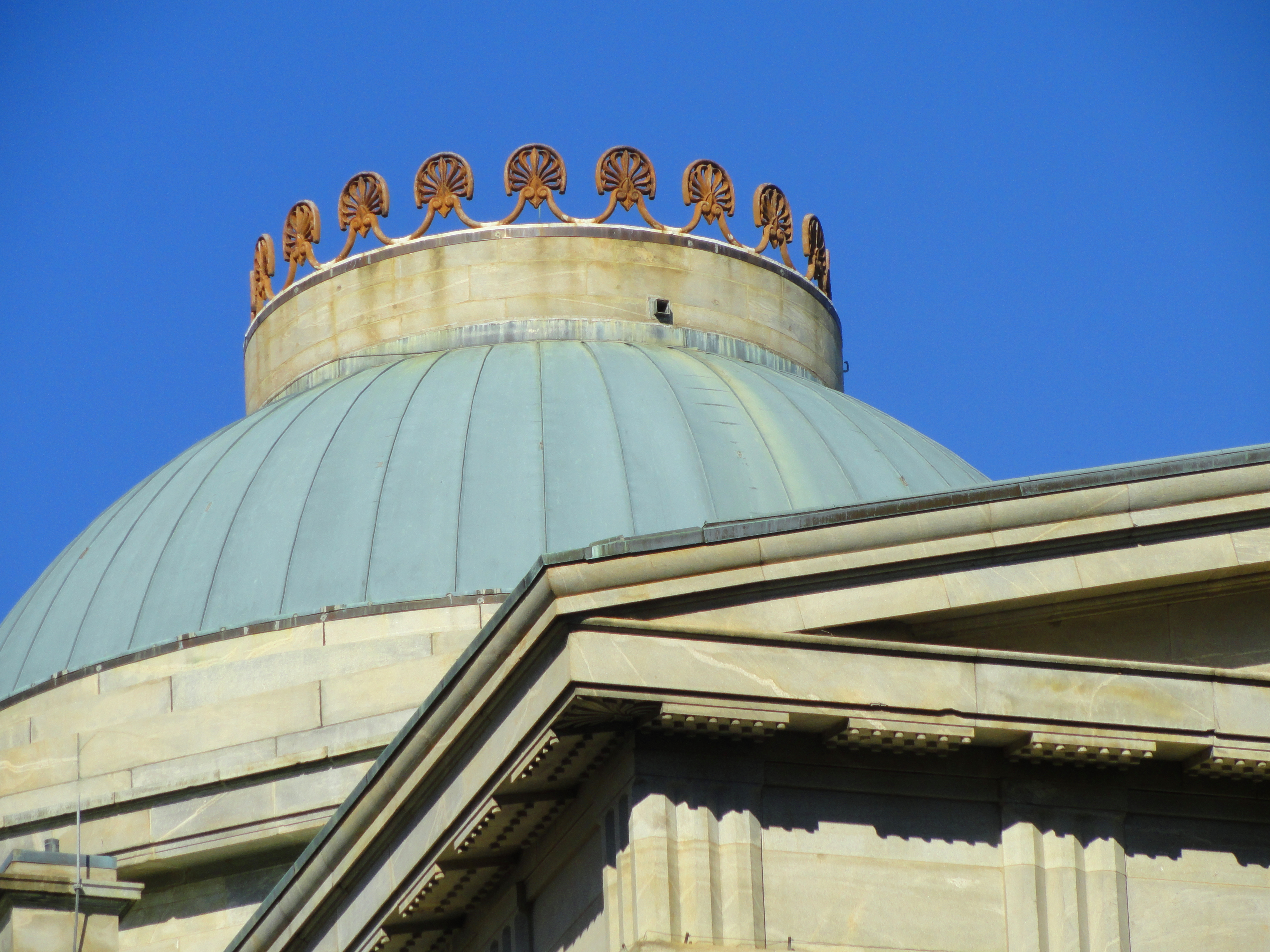 North Carolina State Capitol, Raleigh, North Carolina, North Carolina, USA.